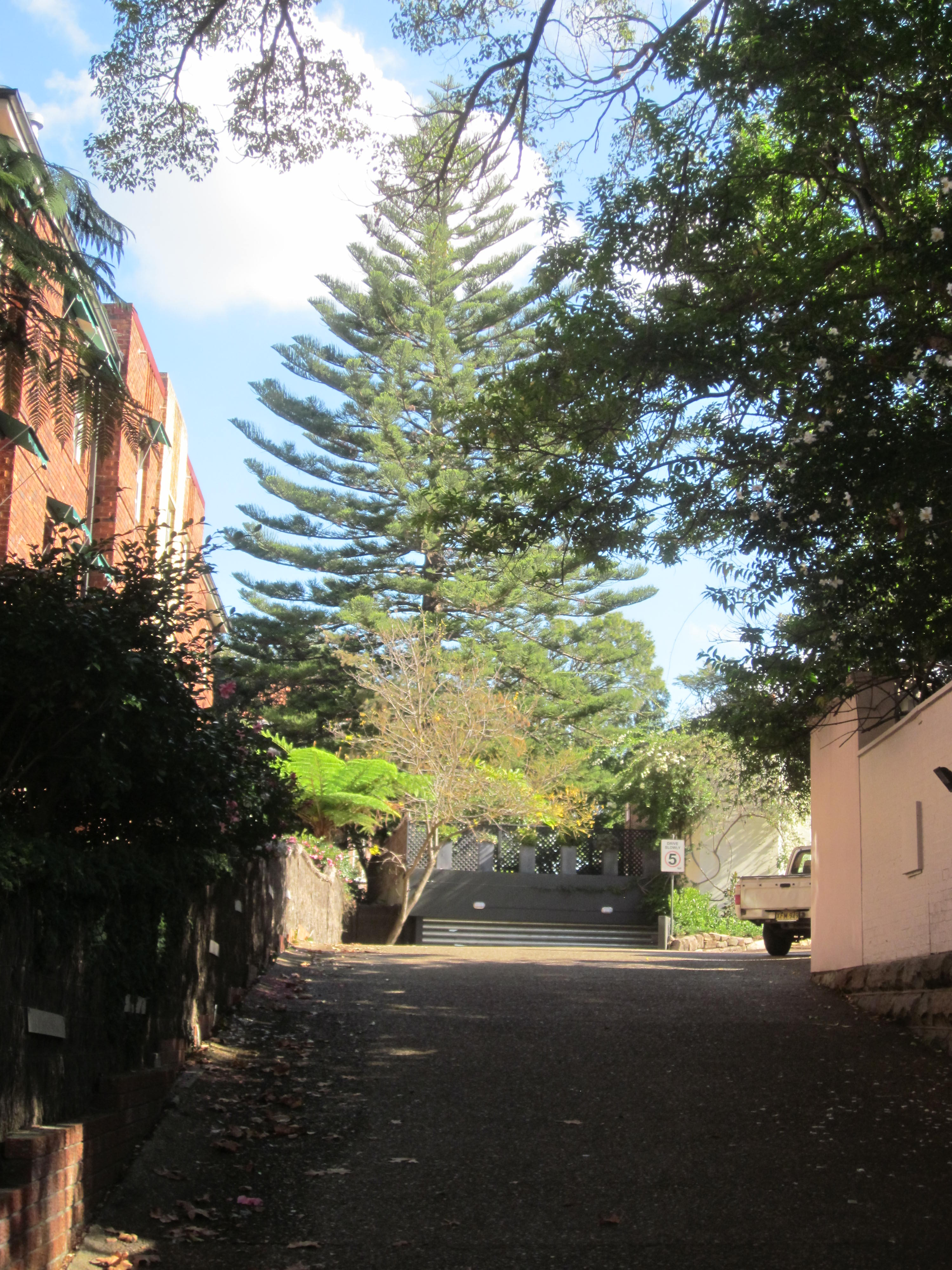 Entrance to Rosemont, 14 Rosemont Avenue, Woollahra, NSW. This property is listed on the New South Wales State Heritage Register.